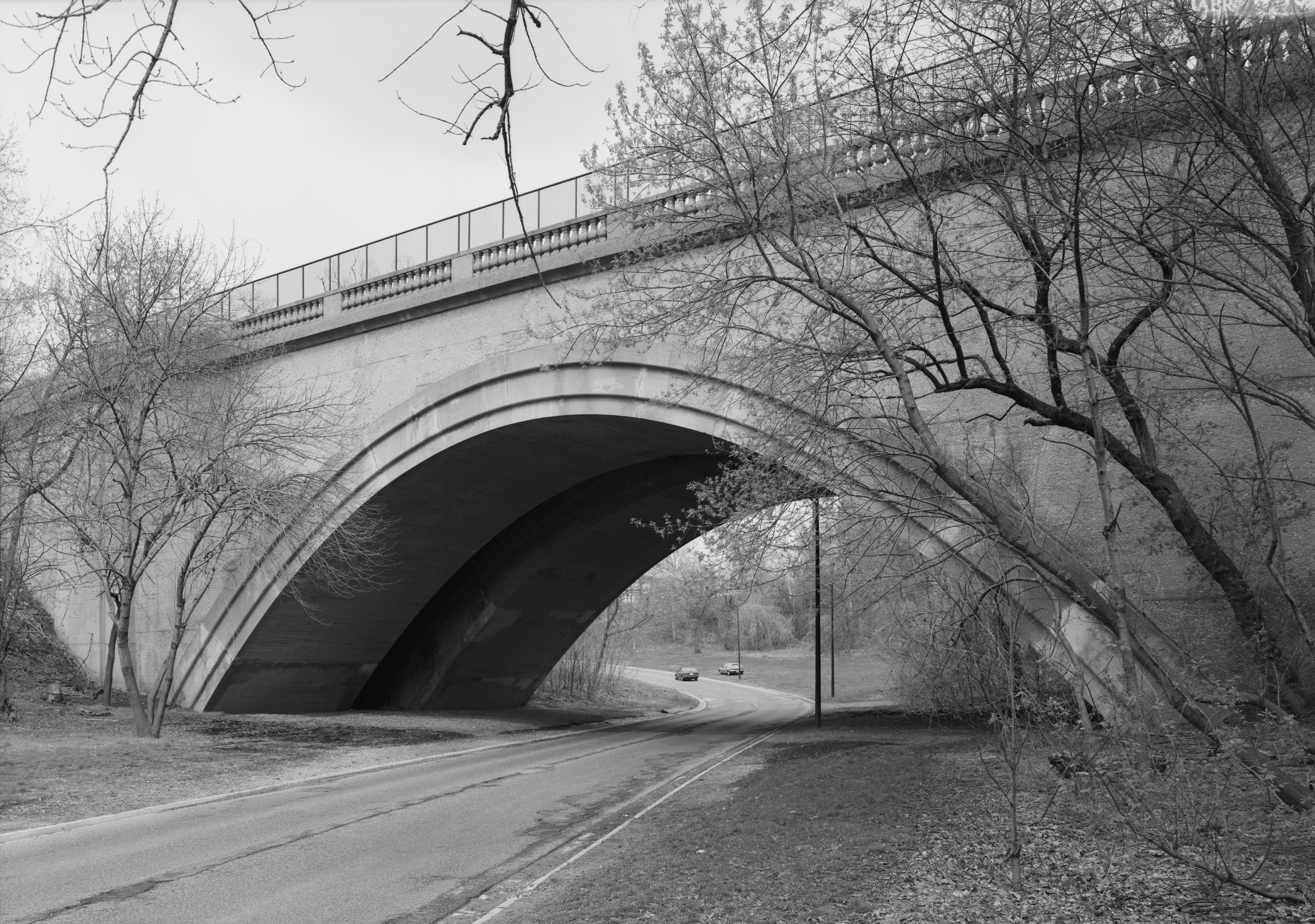 Looking west at the 16th Street Bridge over Piney Branch and Military Road NW in Washington, D.C., in the United States.